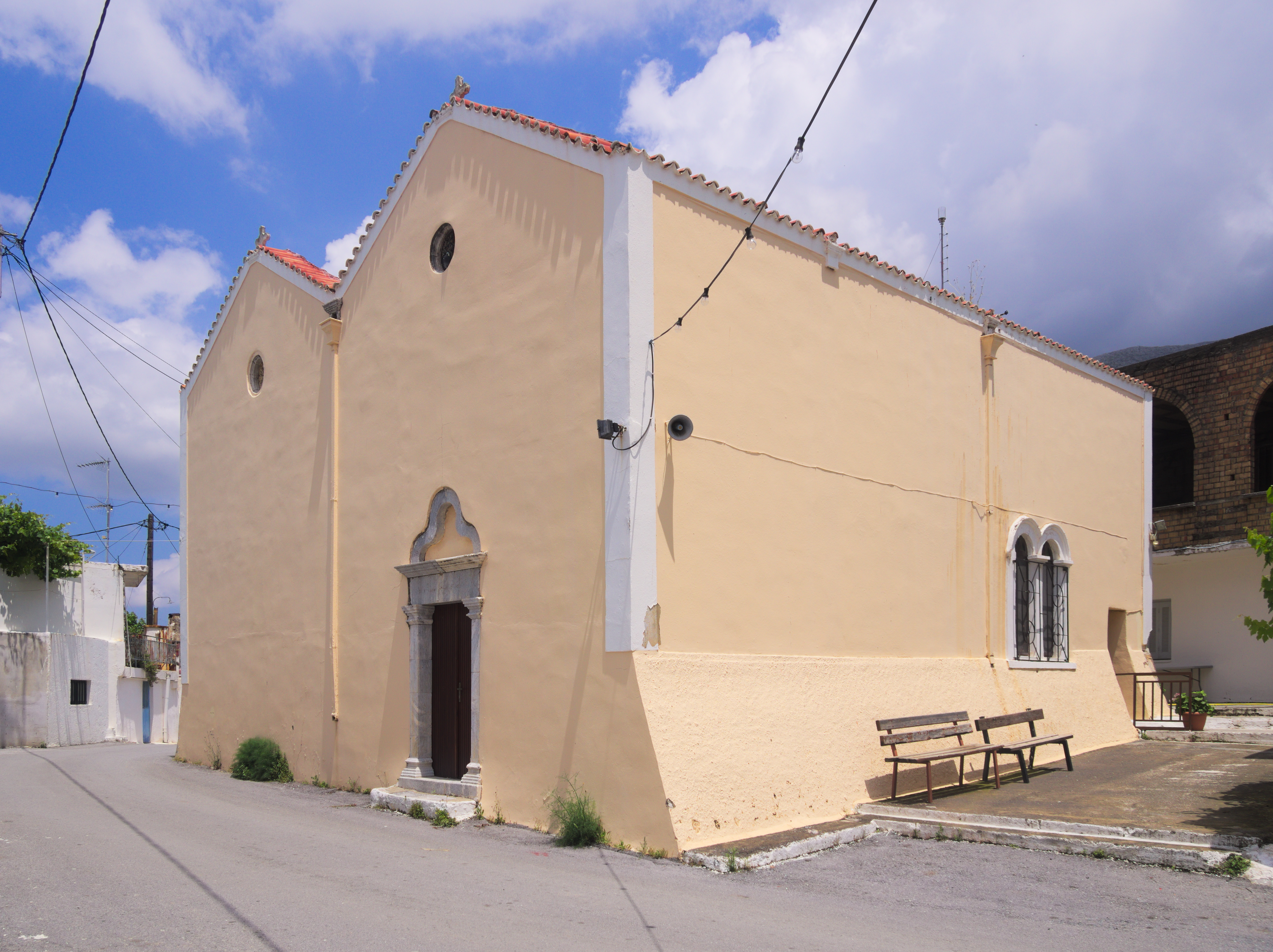 The church of Saint Efstathios at Amariano, Crete.